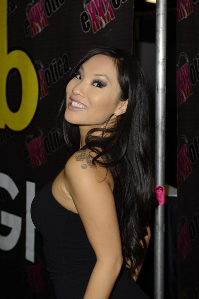 Adult film star Asa Akira at the EXXXOTICA convention in New Jersey during 2013